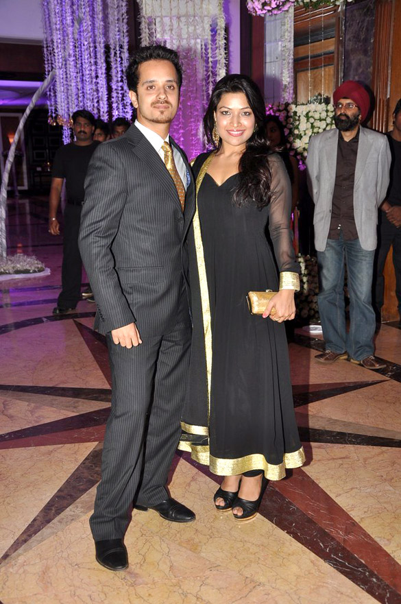 Raghav Sachar, Amita Pathak at Sunidhi Chauhan's wedding reception at Taj Lands End